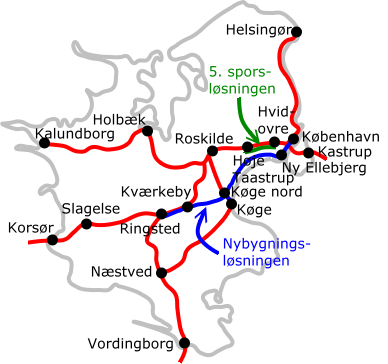 Map of railways on Zealand (Sjælland). The coloured lines are proposed new railways. Green: "5. sporsløsningen" Blue: "Nybygningsløsningen"